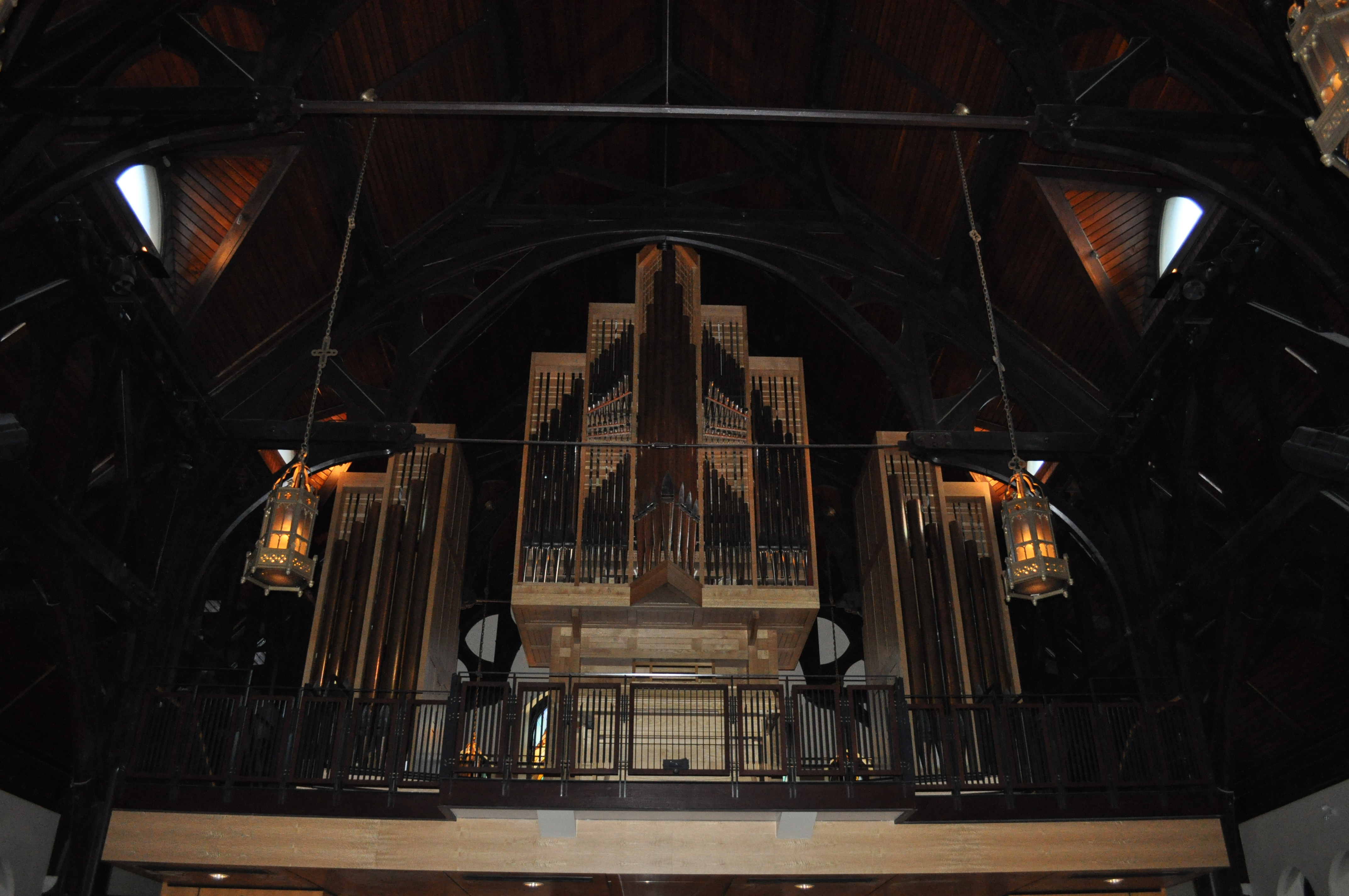 Organ, Christ Church Cathedral, Vancouver, BC. This photo was taken with a flash.